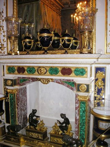 Pavlovsk Palace. Fireplace.